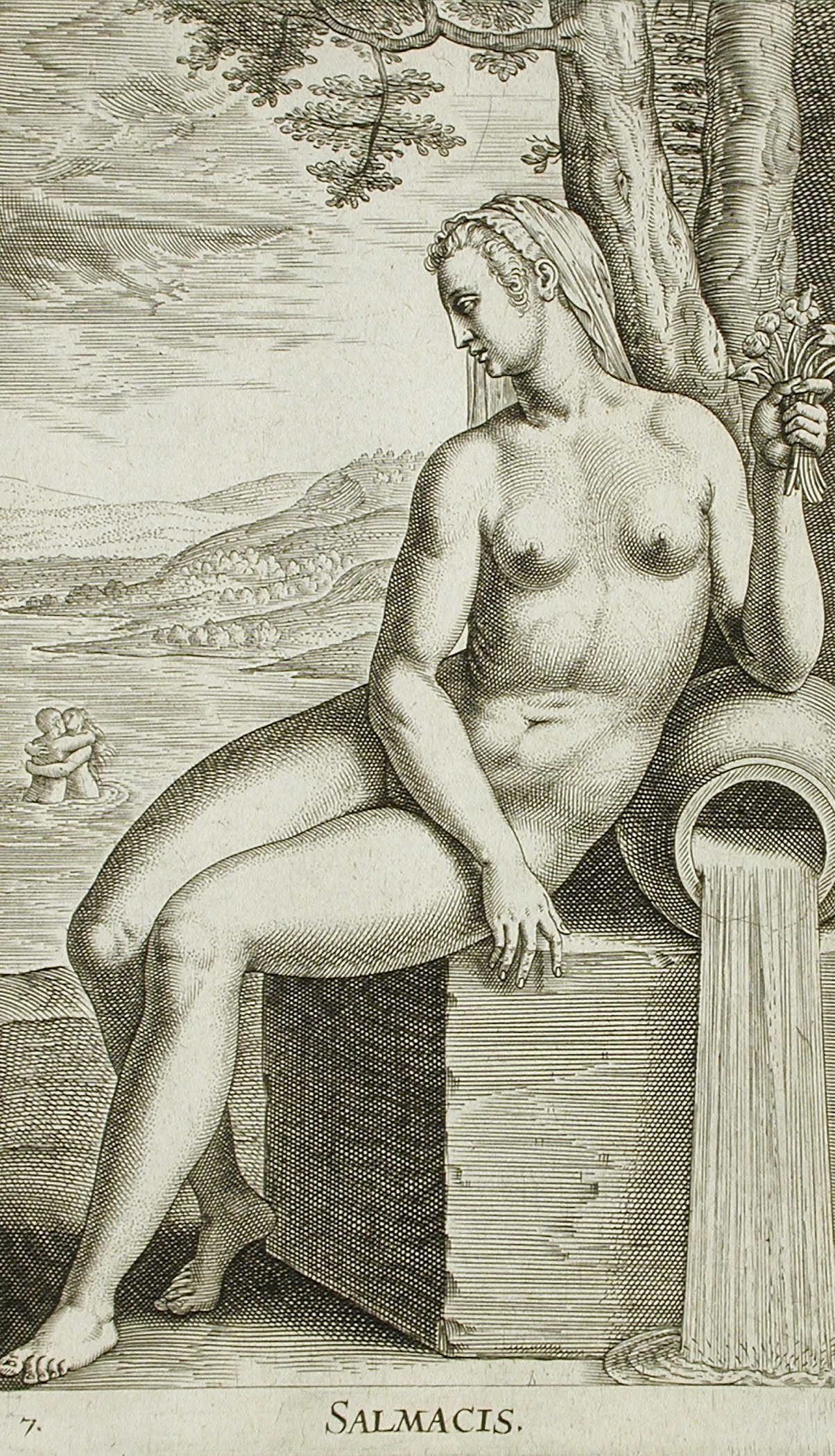 Holland, 1587 Series: Nymphs, pl. 7 Prints; engravings Engraving Mary Stansbury Ruiz Bequest (M.88.91.381h) Prints and Drawings